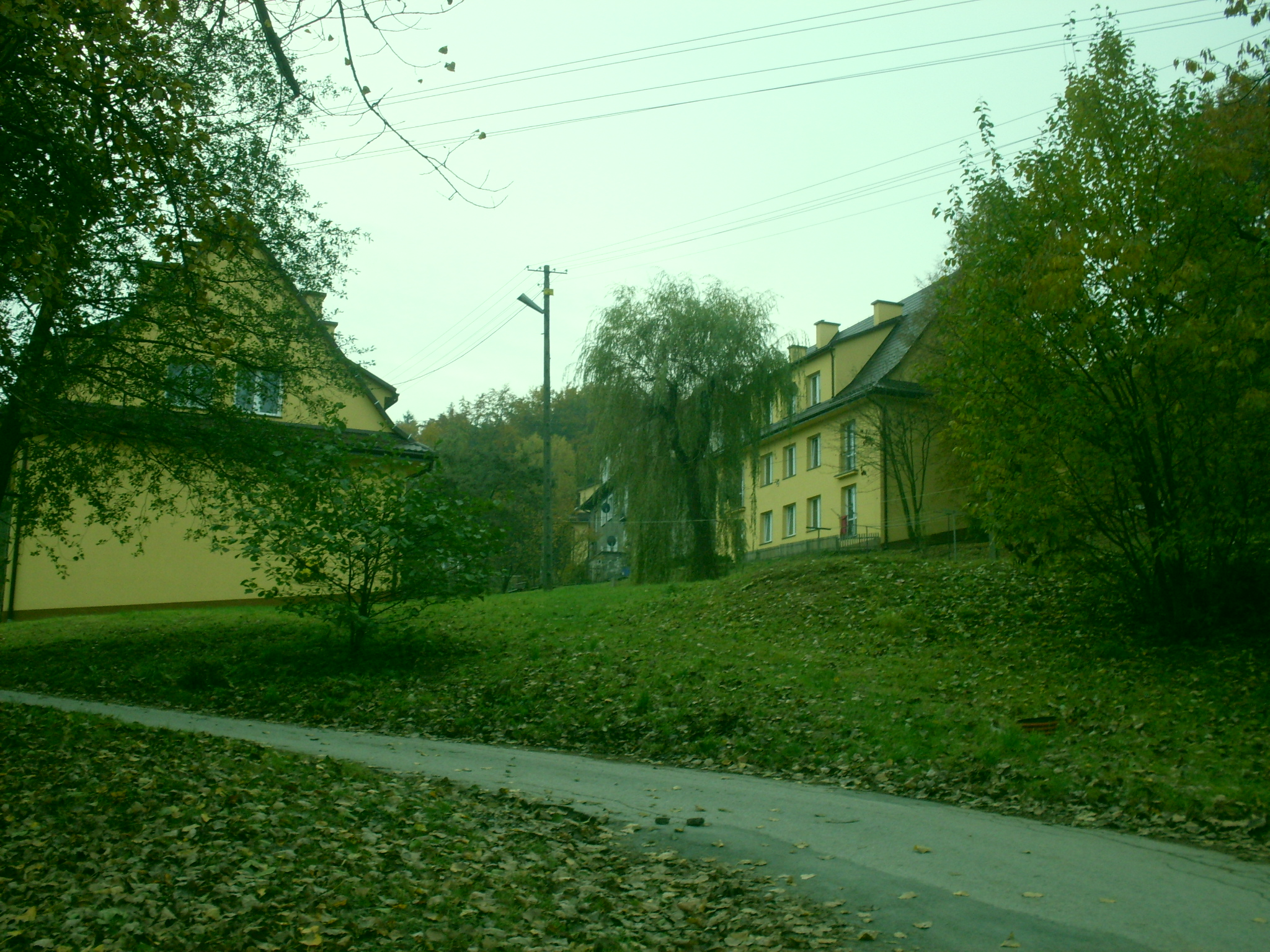 Krzeszowice. Lipinówka